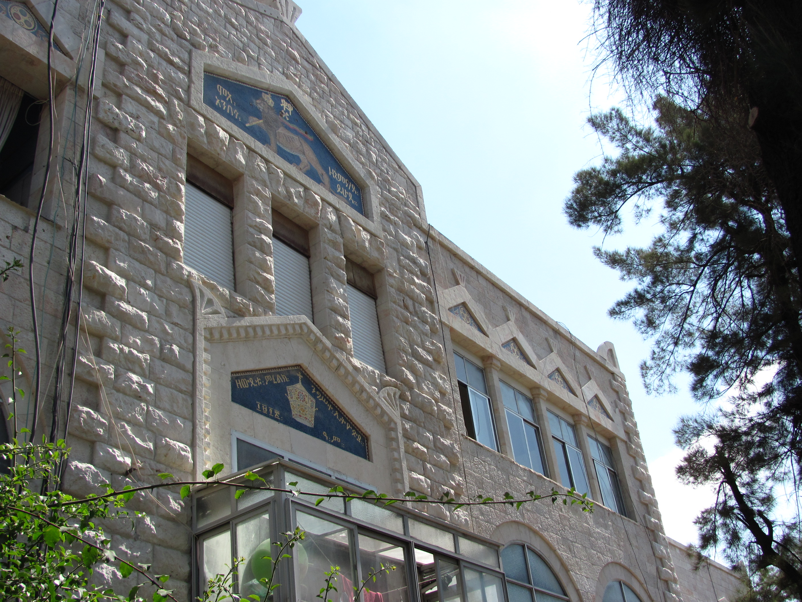 Exterior of the historic Ethiopian consulate building at #38-40 Street of the Prophets, Jerusalem, sporting gabled windows and brightly-colored mosaics. The uppermost mosaic depicts a lion with a cross and a flag -- the symbol of the Ethiopian royal family -- with the words in Ge'ez: "The lion of Judah triumphs".